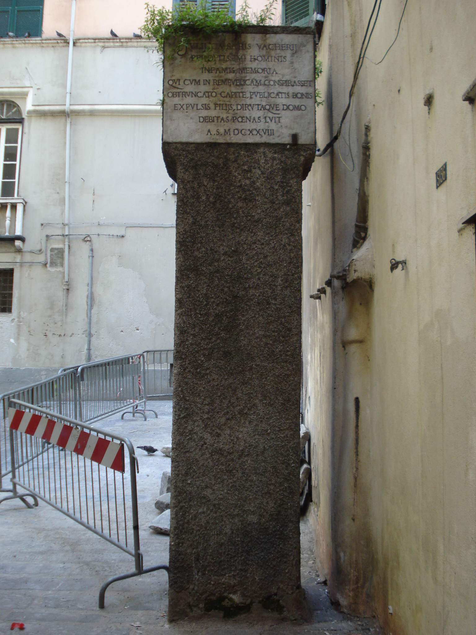 The column of infamy in Genova